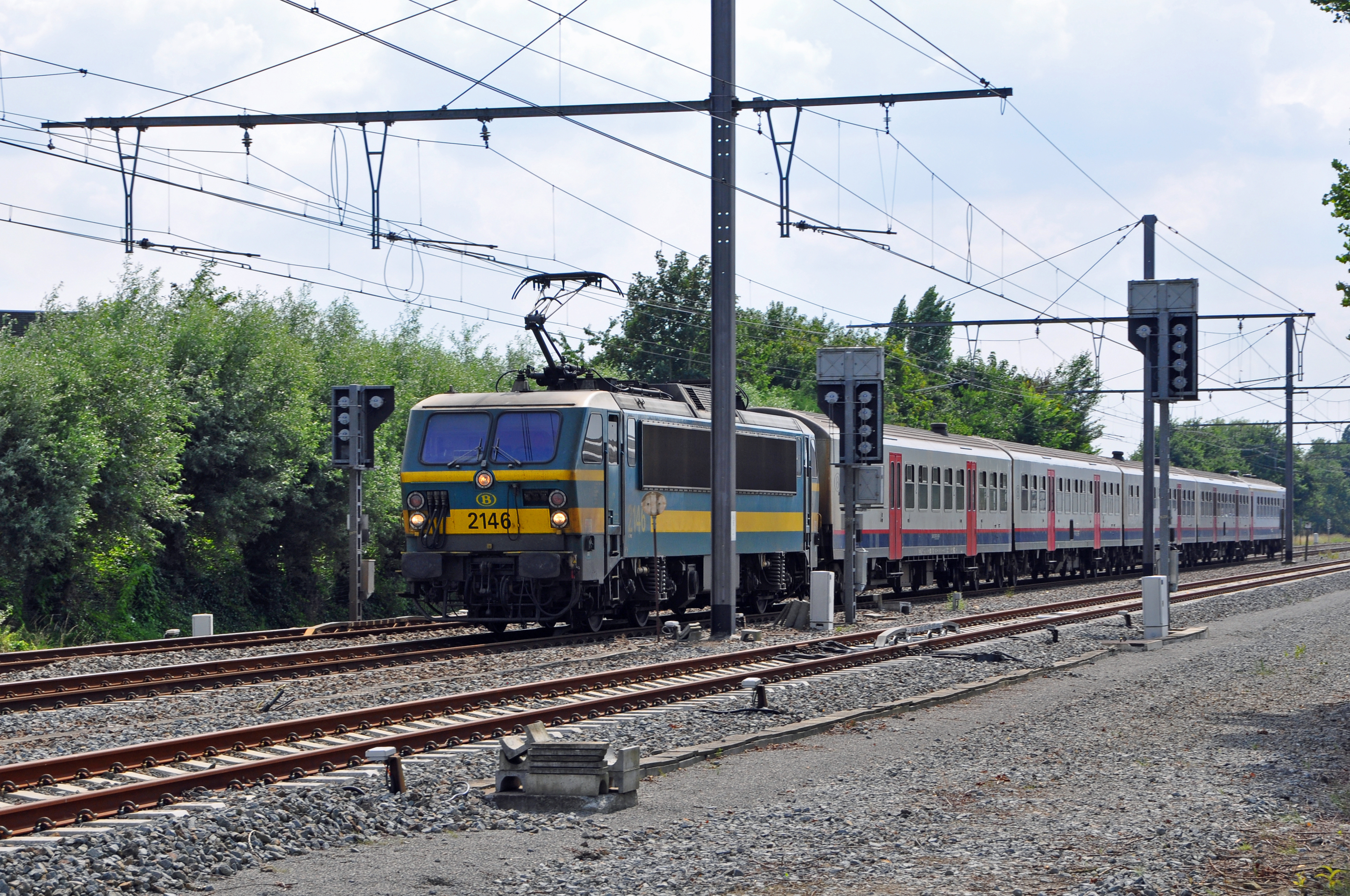 Belgian railway line 66 Bruges-Kortrijk in Loppem (Zedelgem, province of West Flanders, Belgium)